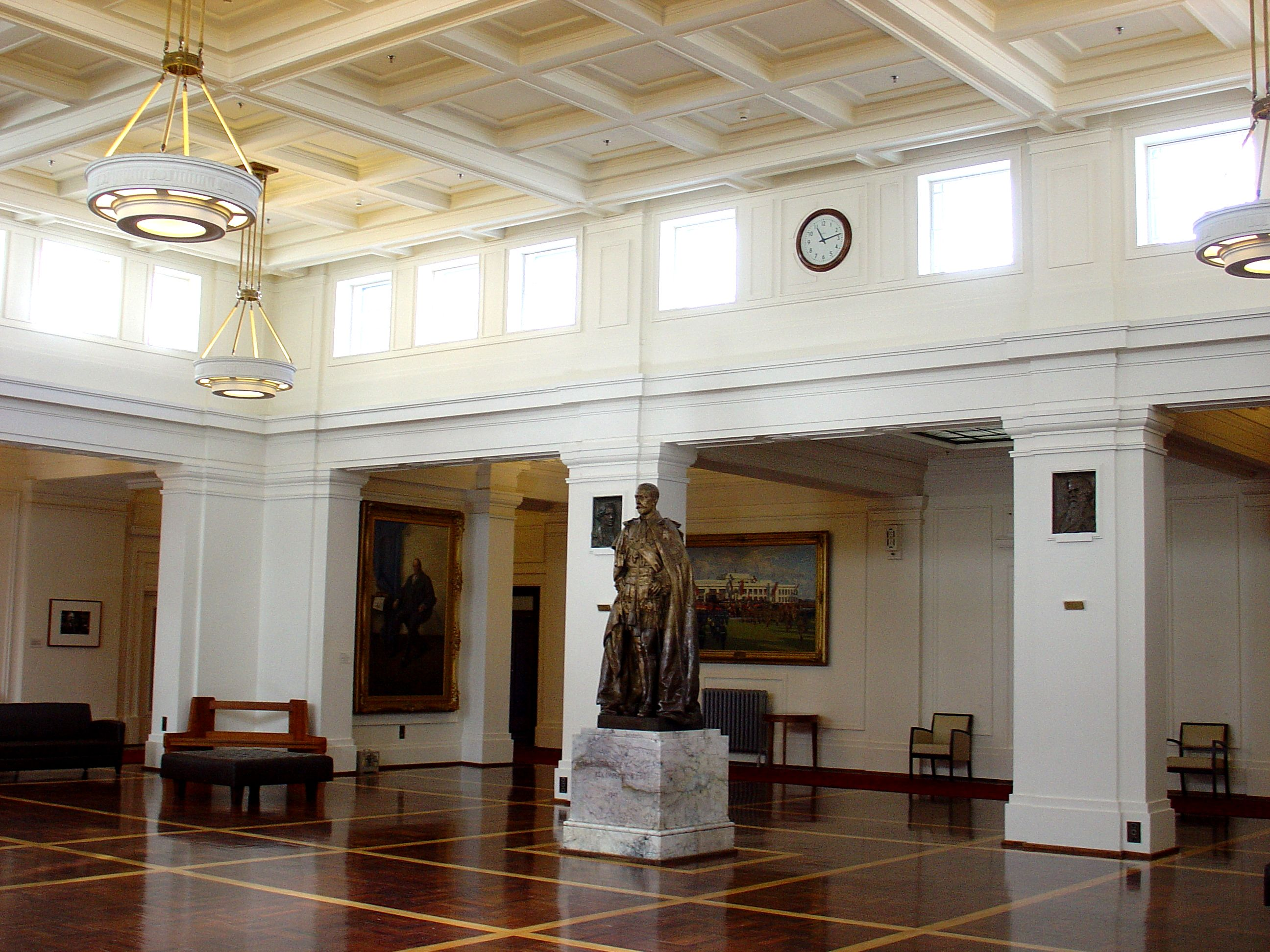 King's Hall, Old Parliament House, Canberra. The statue is of King George V.